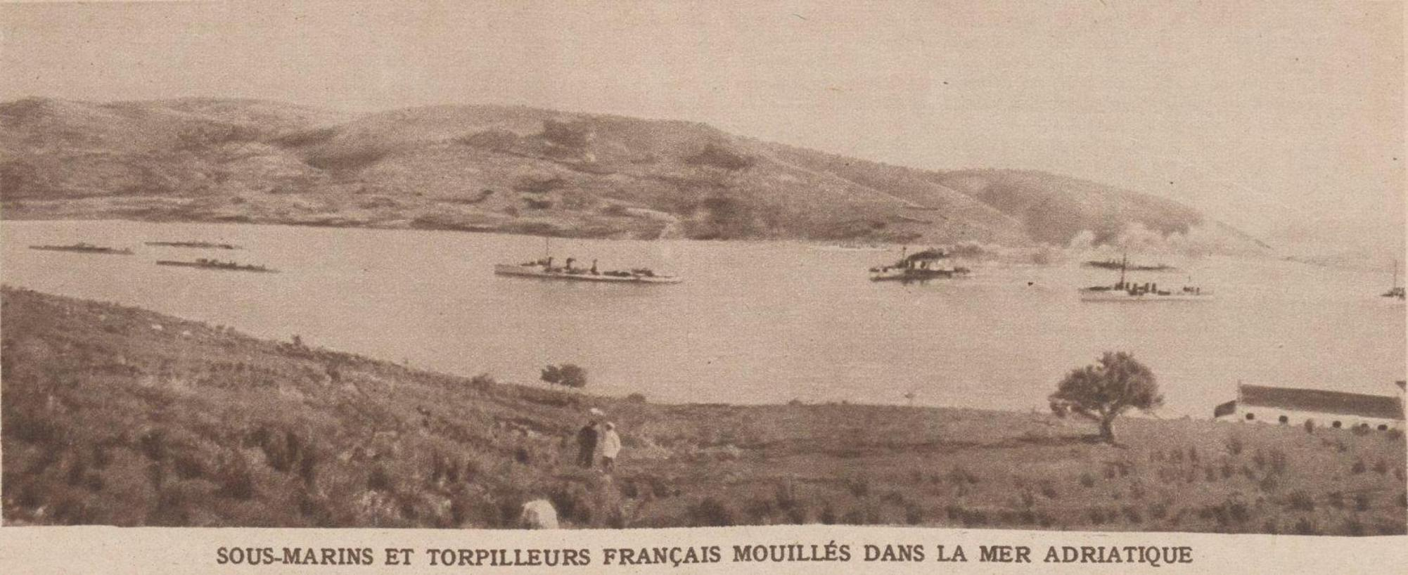 Submarines and French destroyers in the Adriatic in 1915. Photograph published by the weekly Le Miroir 28 March 1915.